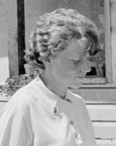 Ann Curthoys and Louise Higham interview residents at Moree Aborigial Station during the Freedom Ride on 17 February 1965